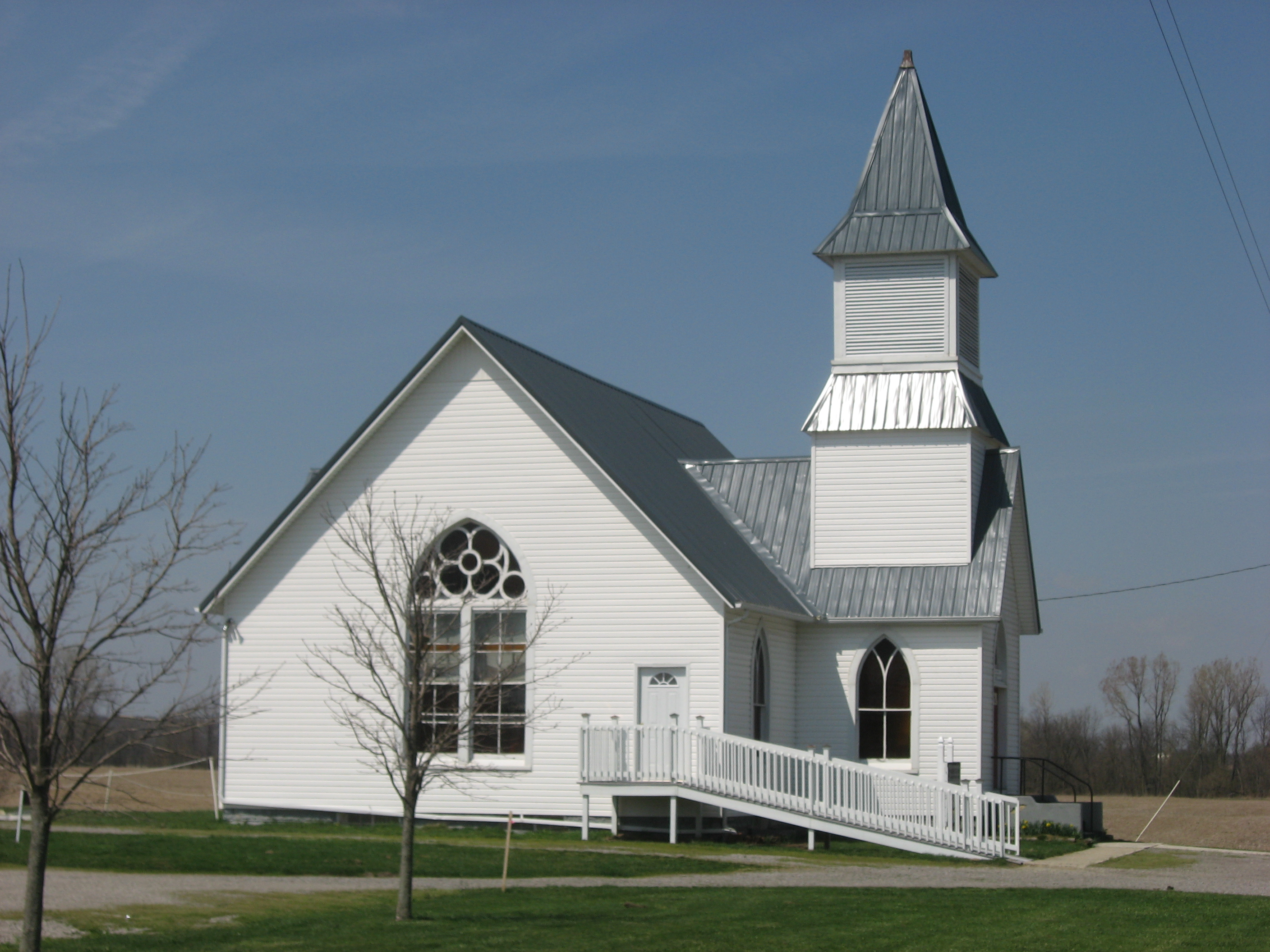 Walnut Grove United Methodist Church, located on County Road 12 in Walnut Grove, Ohio, United States. It was built in 1870. Church profile.